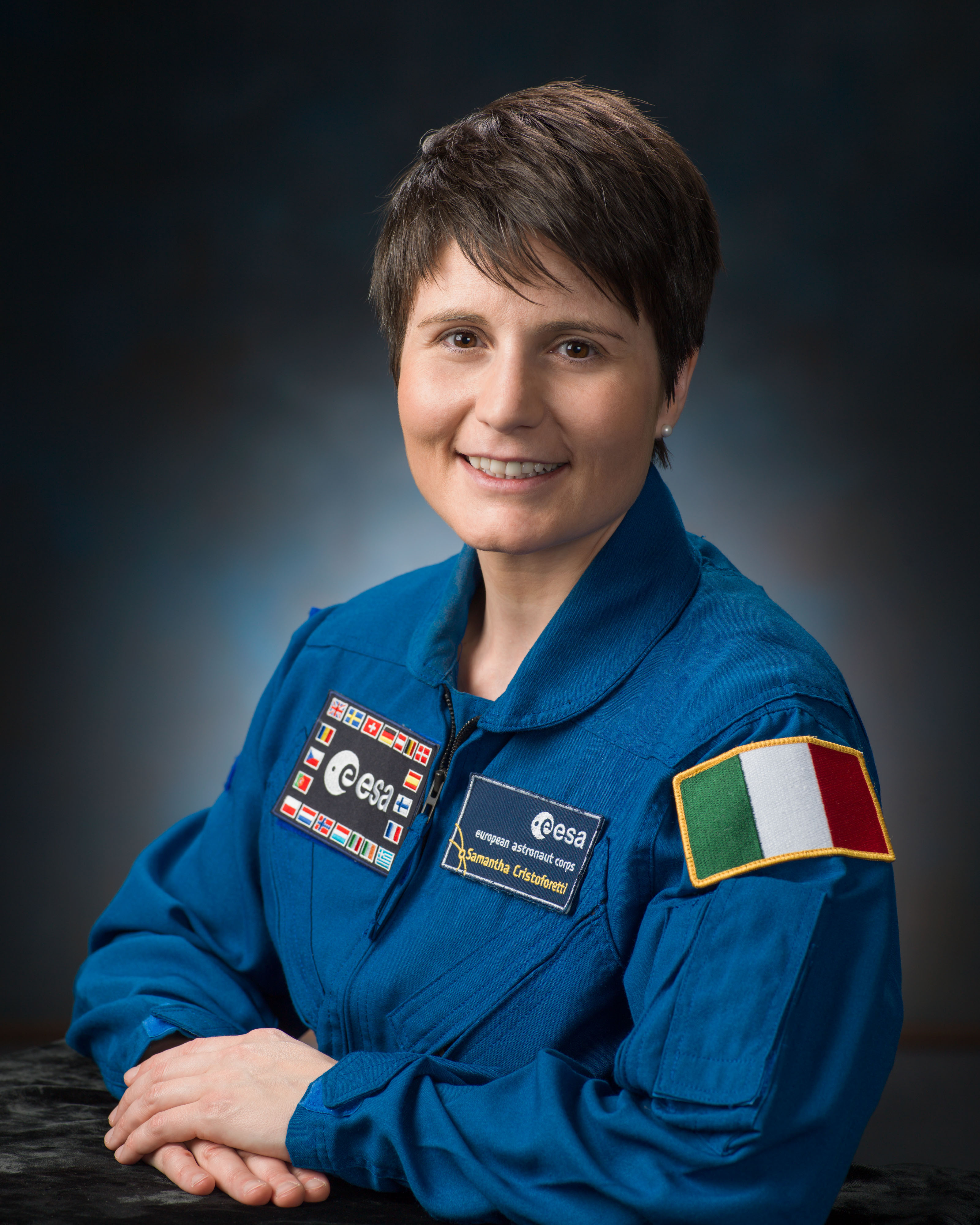 European Space Agency astronaut Samantha Cristoforetti, attired in her blue flight suit.